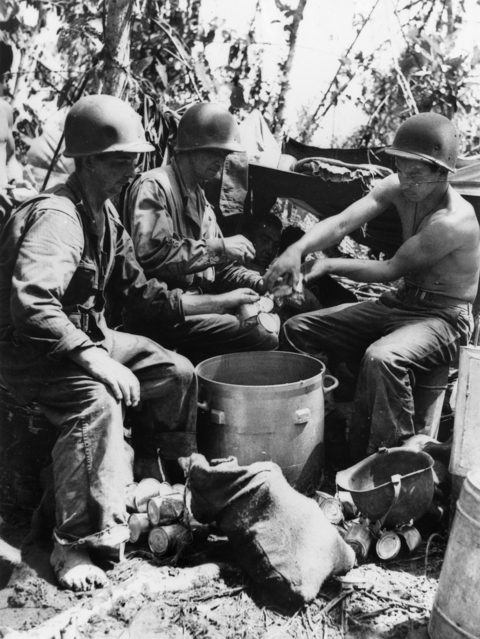 1943-01-27. PAPUA. SANANANDA AREA. AFTER HAVING BEEN IN ACTION DURING WHICH TIME THEIR ONLY FOOD WAS BULLY BEEF AND BISCUITS, THESE AMERICANS PREPARE A HOT MEAL - JUNGLE STEW.